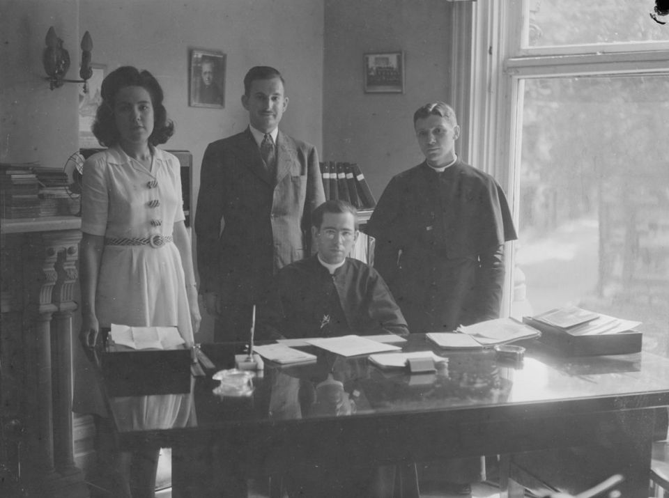 We see the members of the Board of Éditions Fides St. Denis Street in Montreal: Cécile Martin, Paul-Aimé Martin, CSC, Director, Paul Poirier and André Cordeau csc